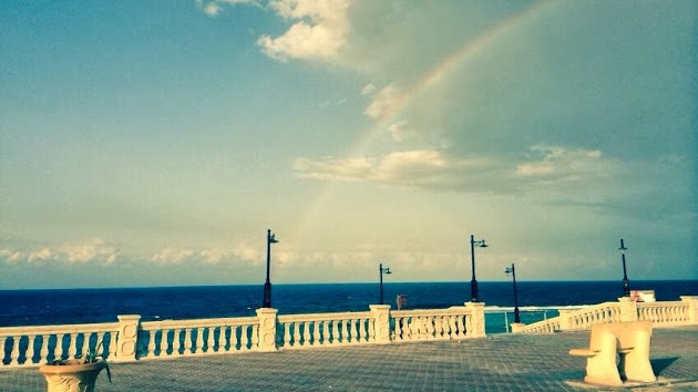 المطرد